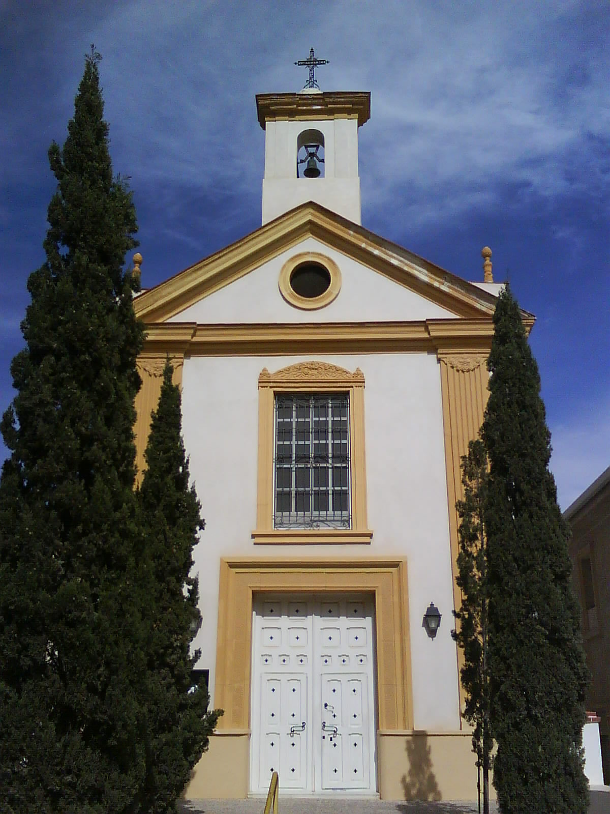 A church in Fortuna, Spain